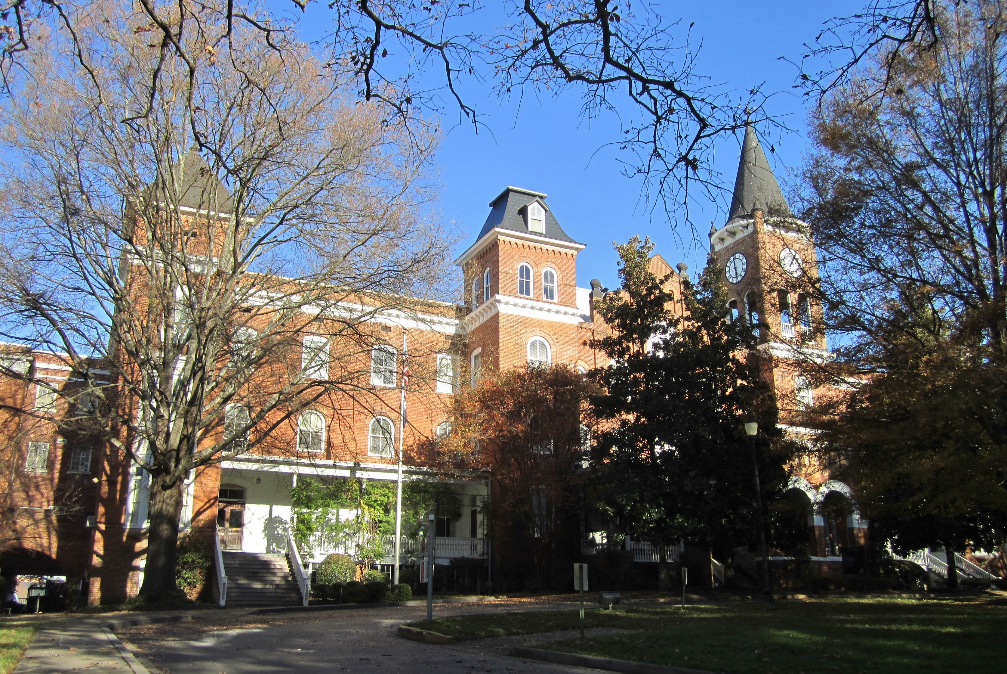 Wilson Hall at Converse College was built in 1889 and originally housed the entire college. It now houses administrative offices.